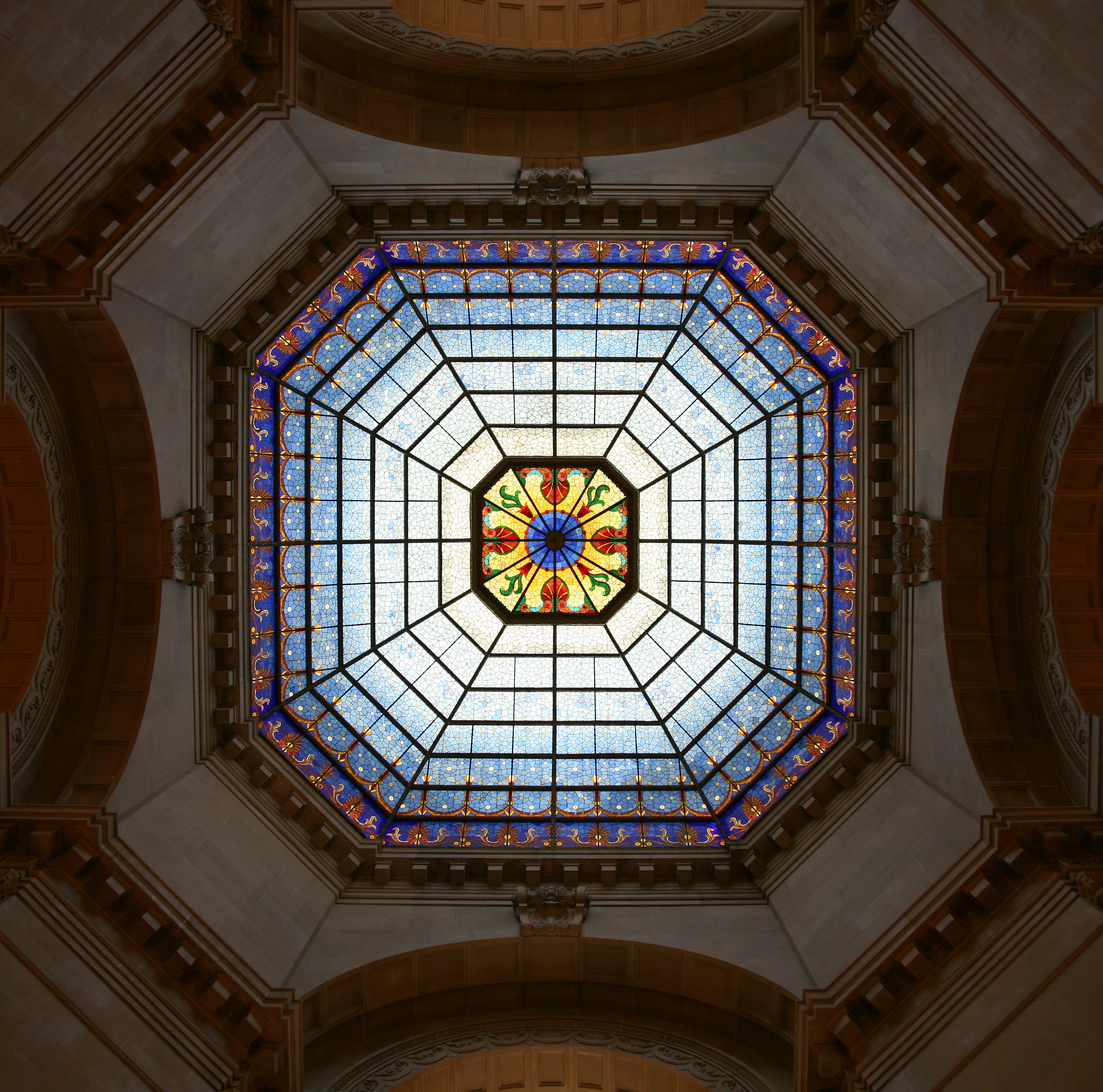 Looking up to the Dome of the Indiana State Capitol, Indianapolis